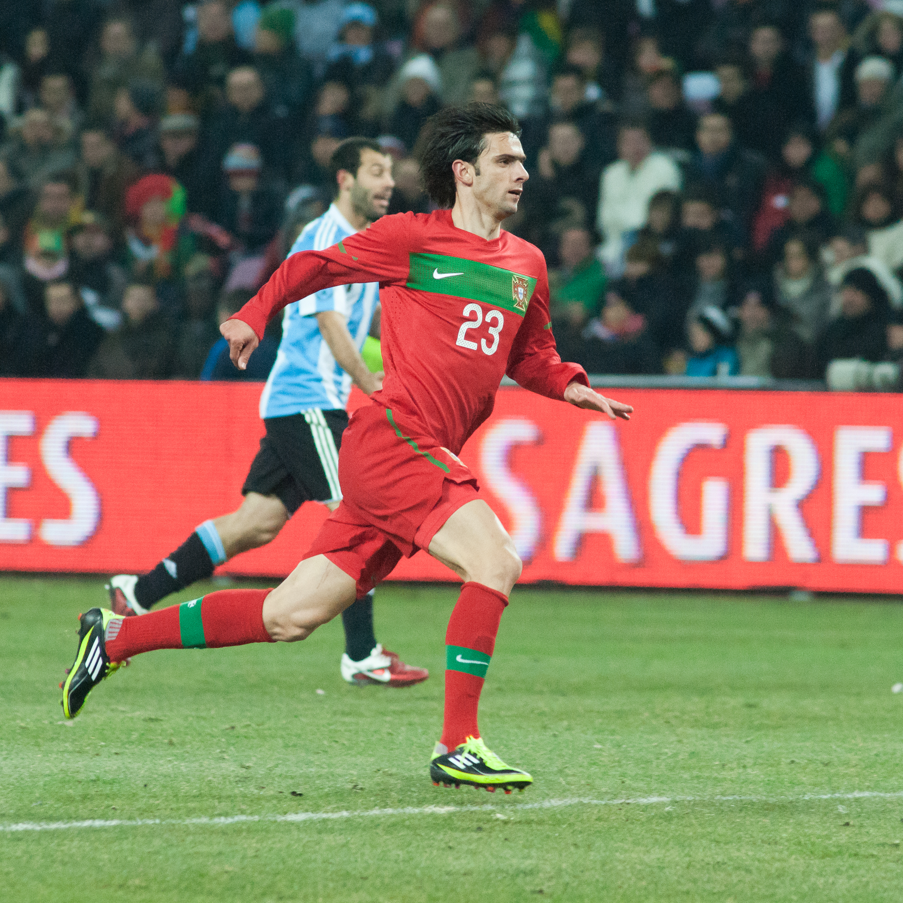 The making of this document was supported by Wikimedia CH. (Submit your project!) For all the files concerned, please see the category Supported by Wikimedia CH. Portugal vs. Argentina, 9th February 2011